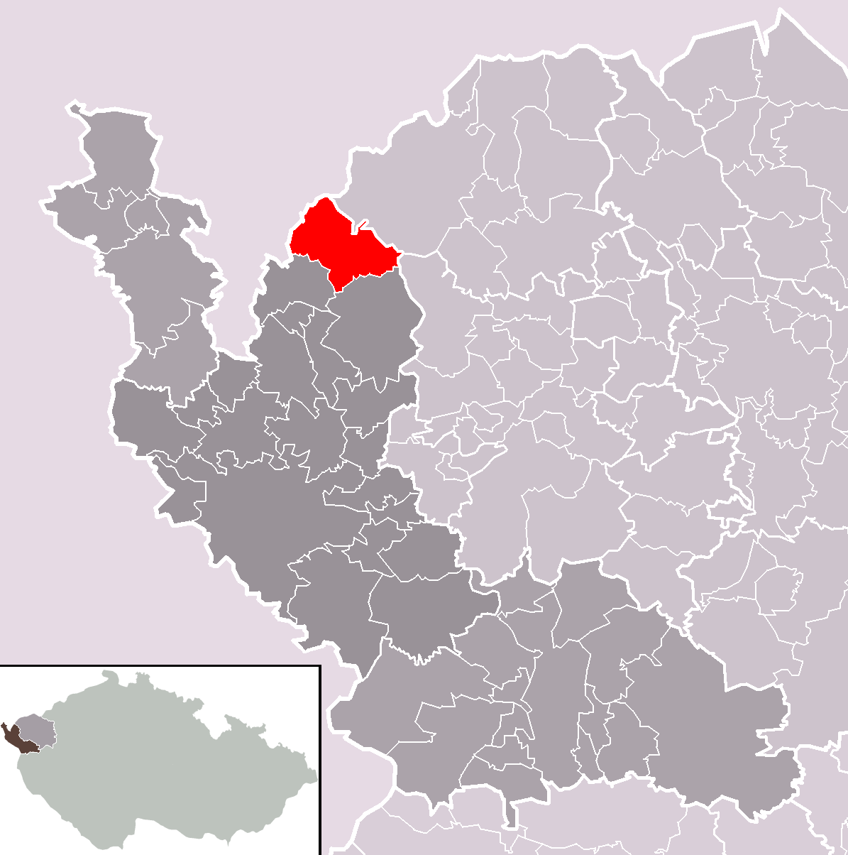 Location of Luby town within Cheb District and administrative area of Cheb as a Municipality with Extended Competence.